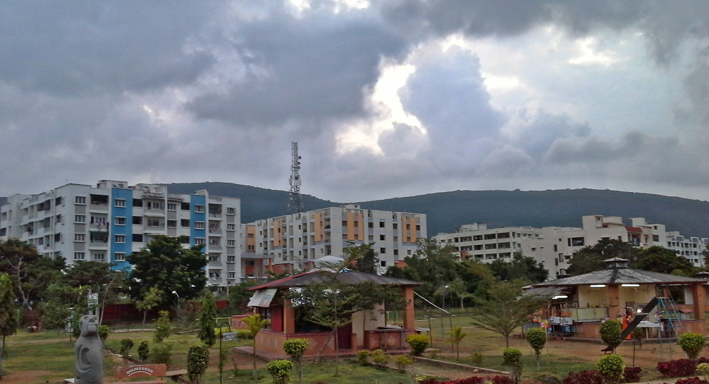 View of Madhurawada suburb from Shilparamam Jaatara in Visakhapatnam